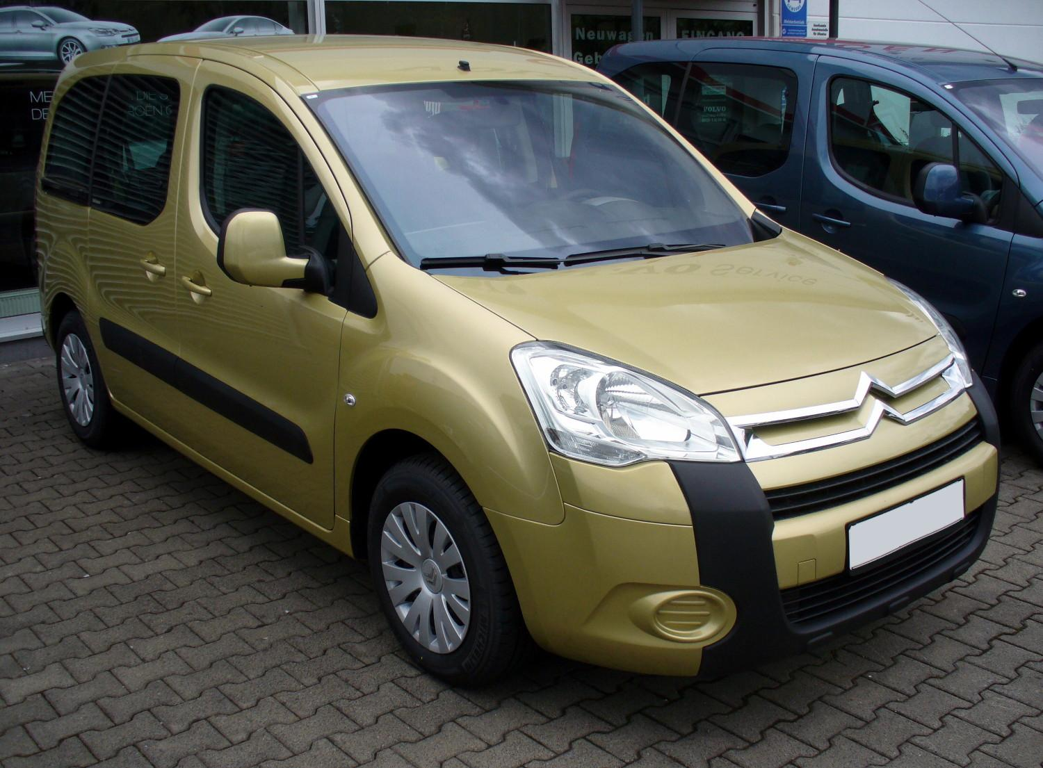 Citroën Berlingo II